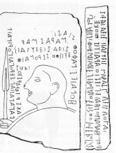 Lemnos stele